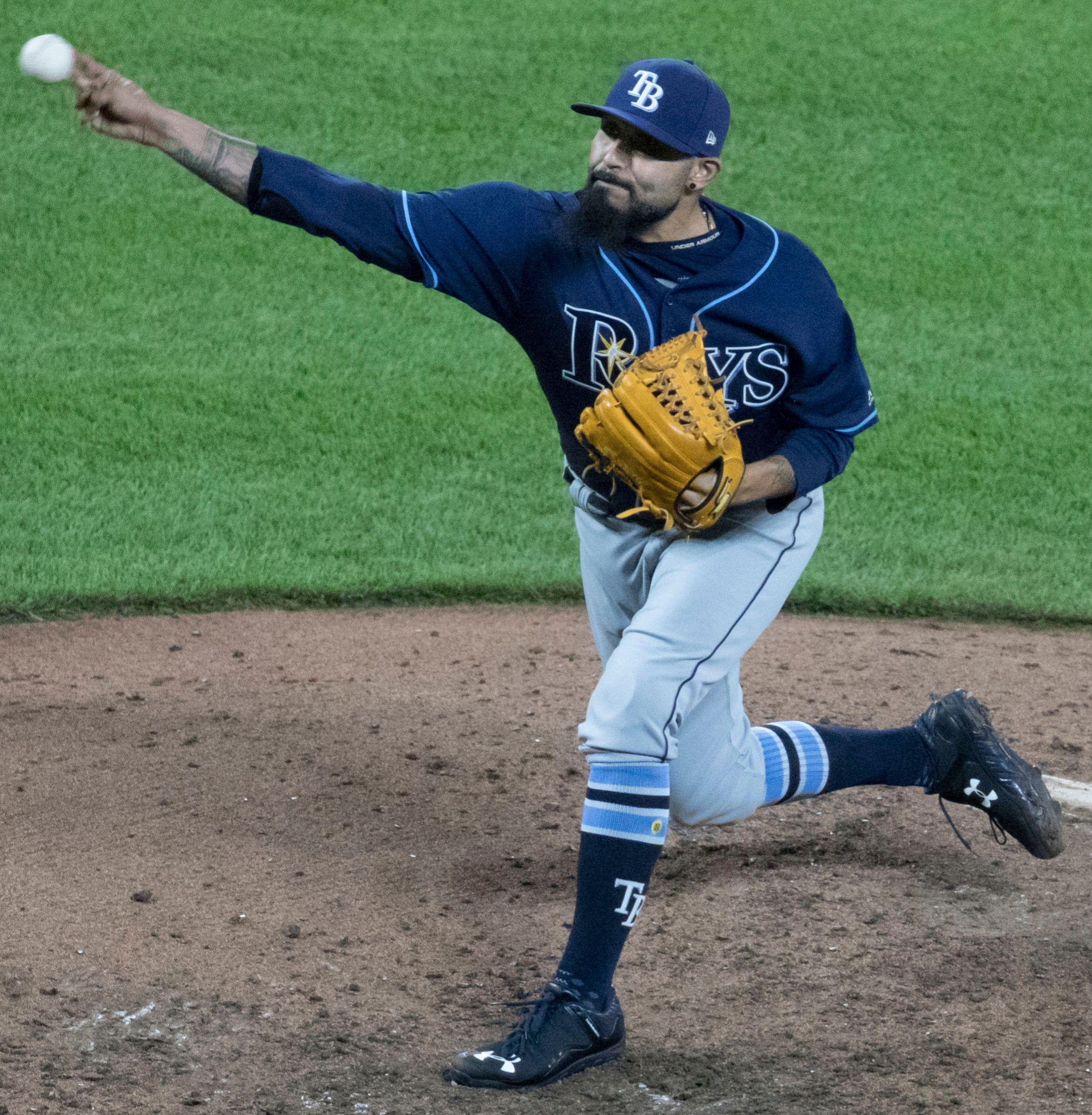 Rays at Orioles 9/21/17